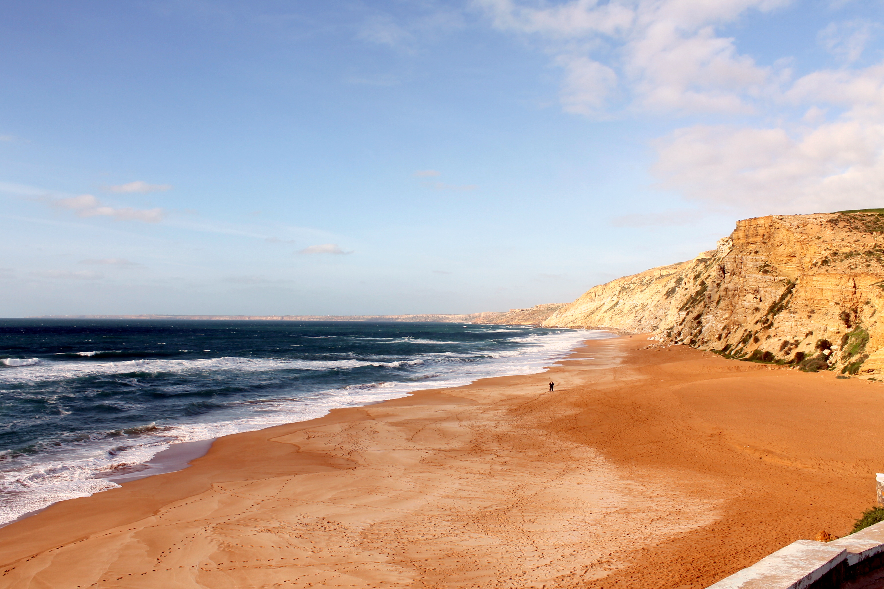 wonderful place in lalla fatna beach in Safi city Morocco.calm sunny and so peacefully.its the treasure of the creature.